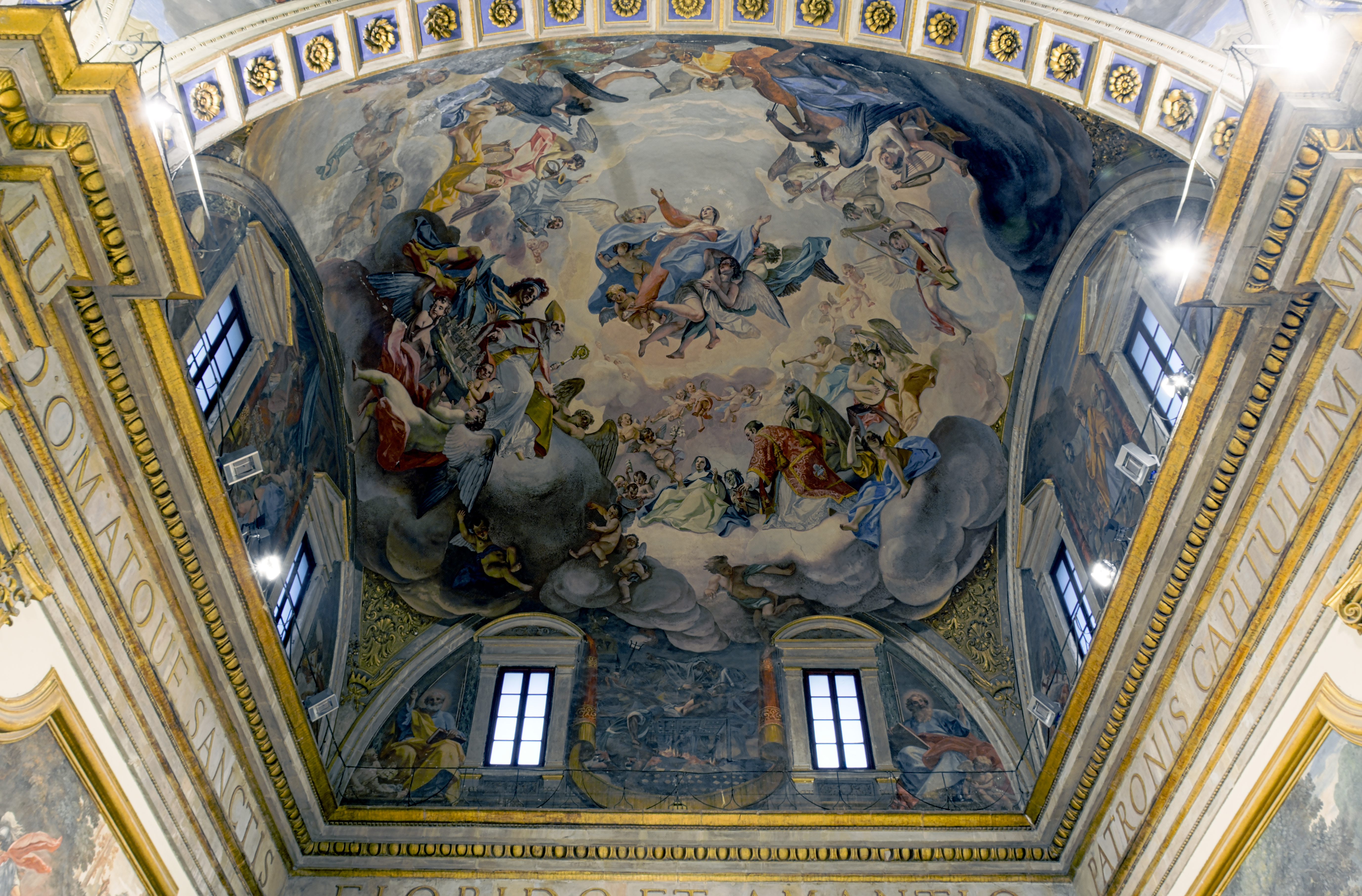 Abside of Duomo di Citta di Castello